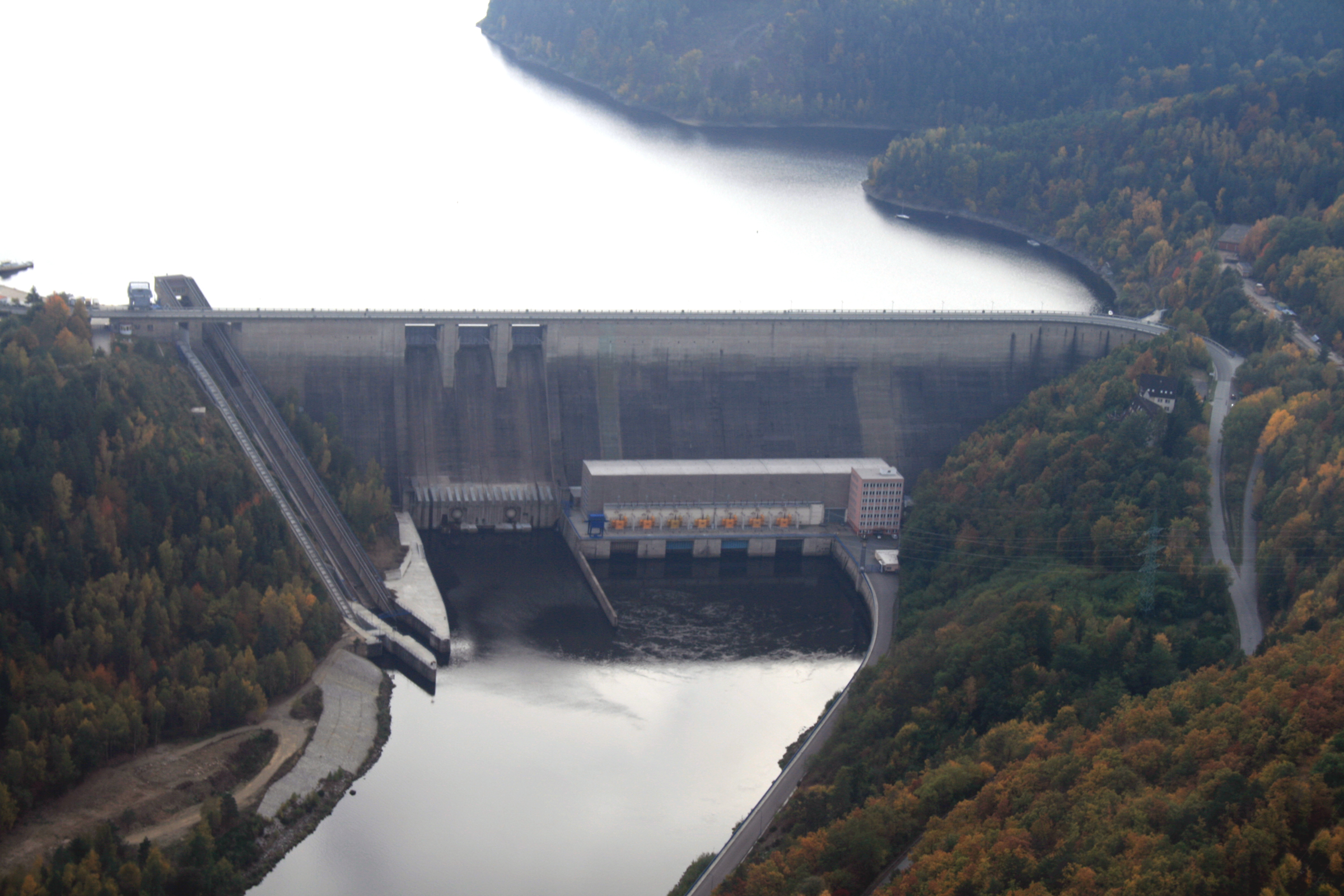 Air photo of Orlík dam on Vltava river, the Czech Republic